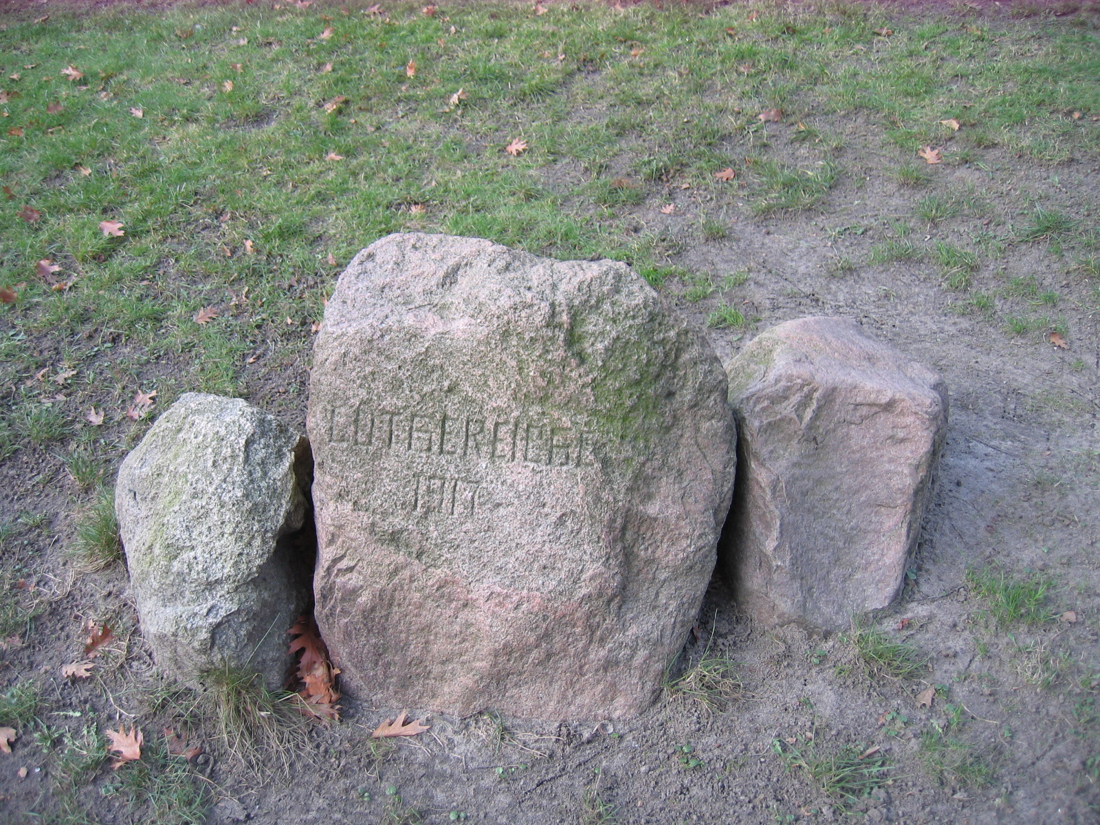 St. John church in Herford, District of Herford, North Rhine-Westphalia, Germany.